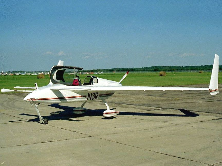 Image of the Rutan Long-EZ N3R operated by NOAA for airborne measurements and modelling.